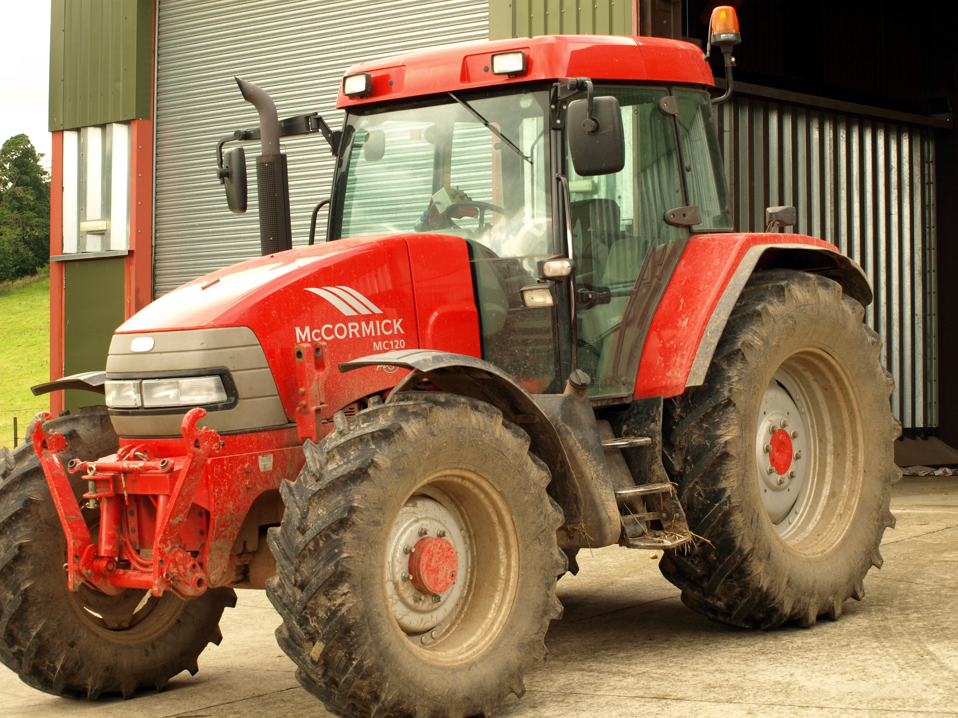 A McCormick MC120 sitting at Mains of Aberdalgie, Perth. This make is now out of production and the Doncaster Factory closed.